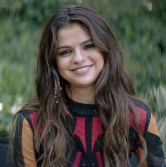 Selena Gomez for Vogue Australia in 2016